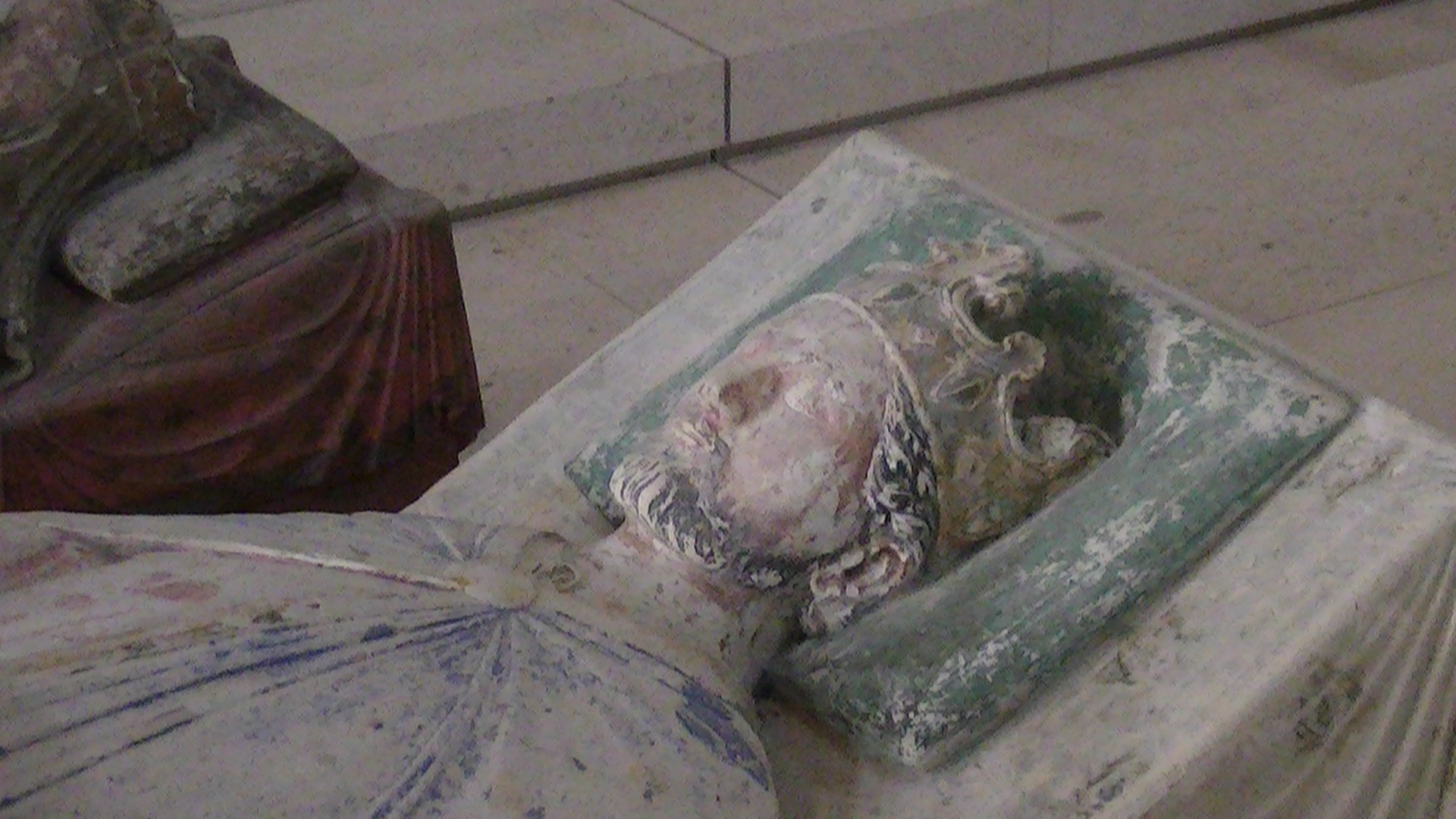 Effigy of Richard I of England in the church of Fontevraud Abbey